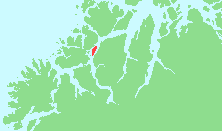 Locator map of Tromsøya, Troms, Norway